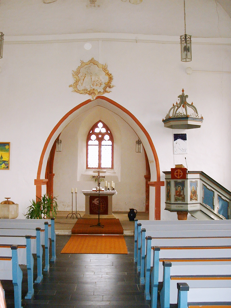 Protestant church Hirschfeld, Hunsrück, Germany, Rhineland-Palatinate - nave